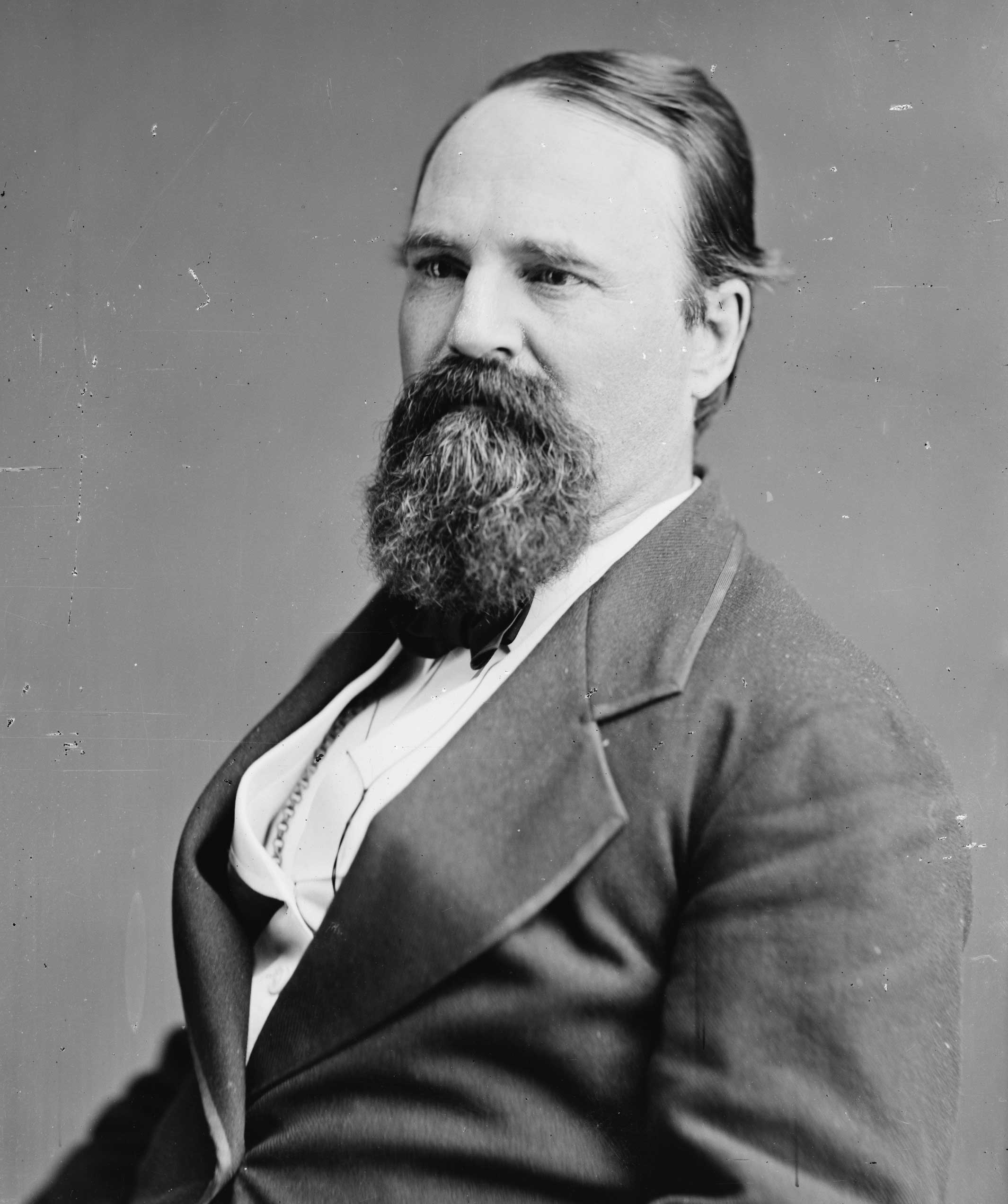 Charles Foster, formal photo portrait. Secretary of the Treasury of the United States.